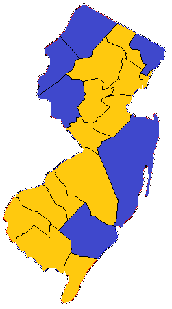 1844 New Jersey gubernatorial election Results (Actual)